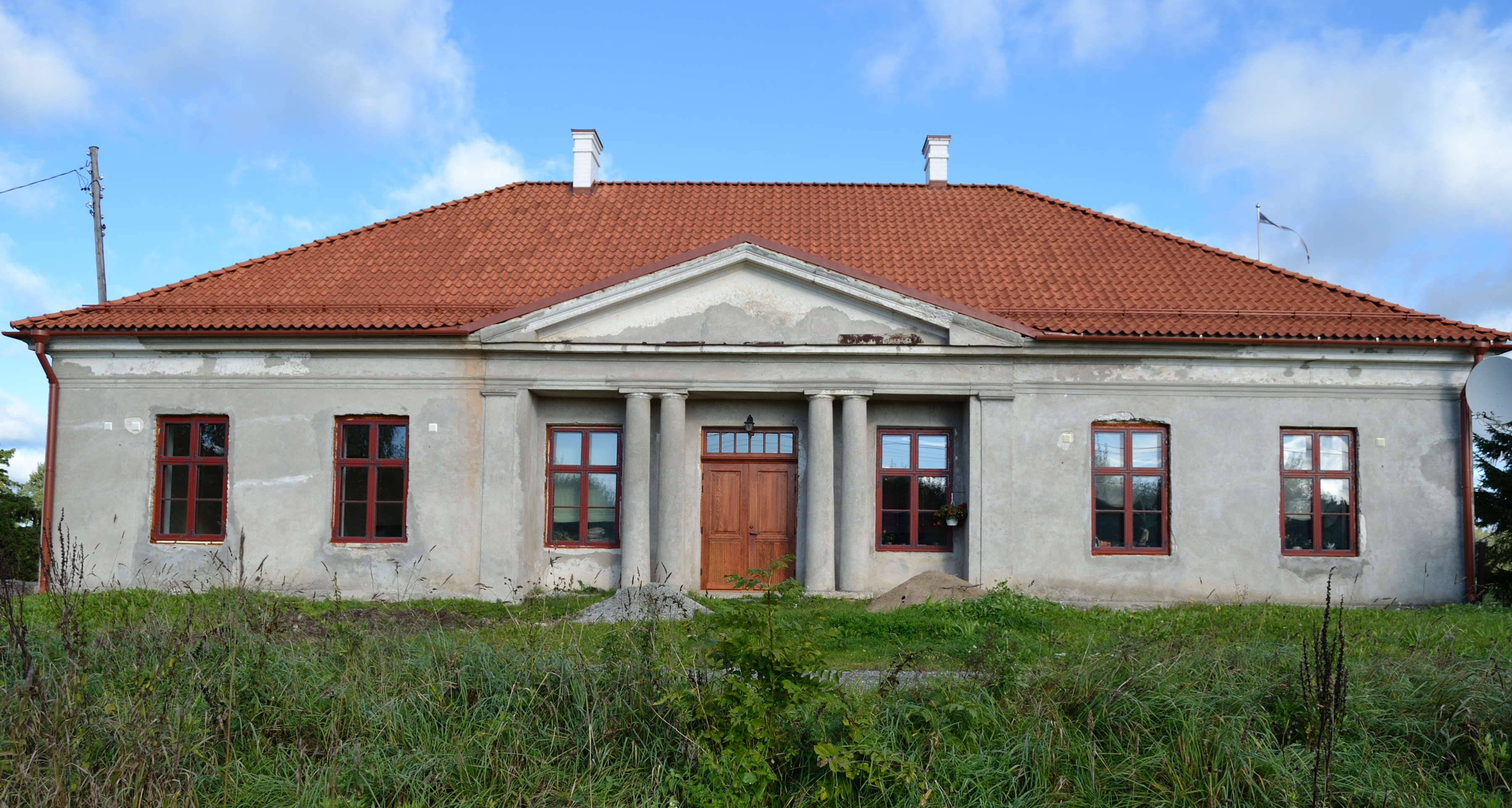 Saue post station, built in 1831 This photograph was taken with a Nikon D3100